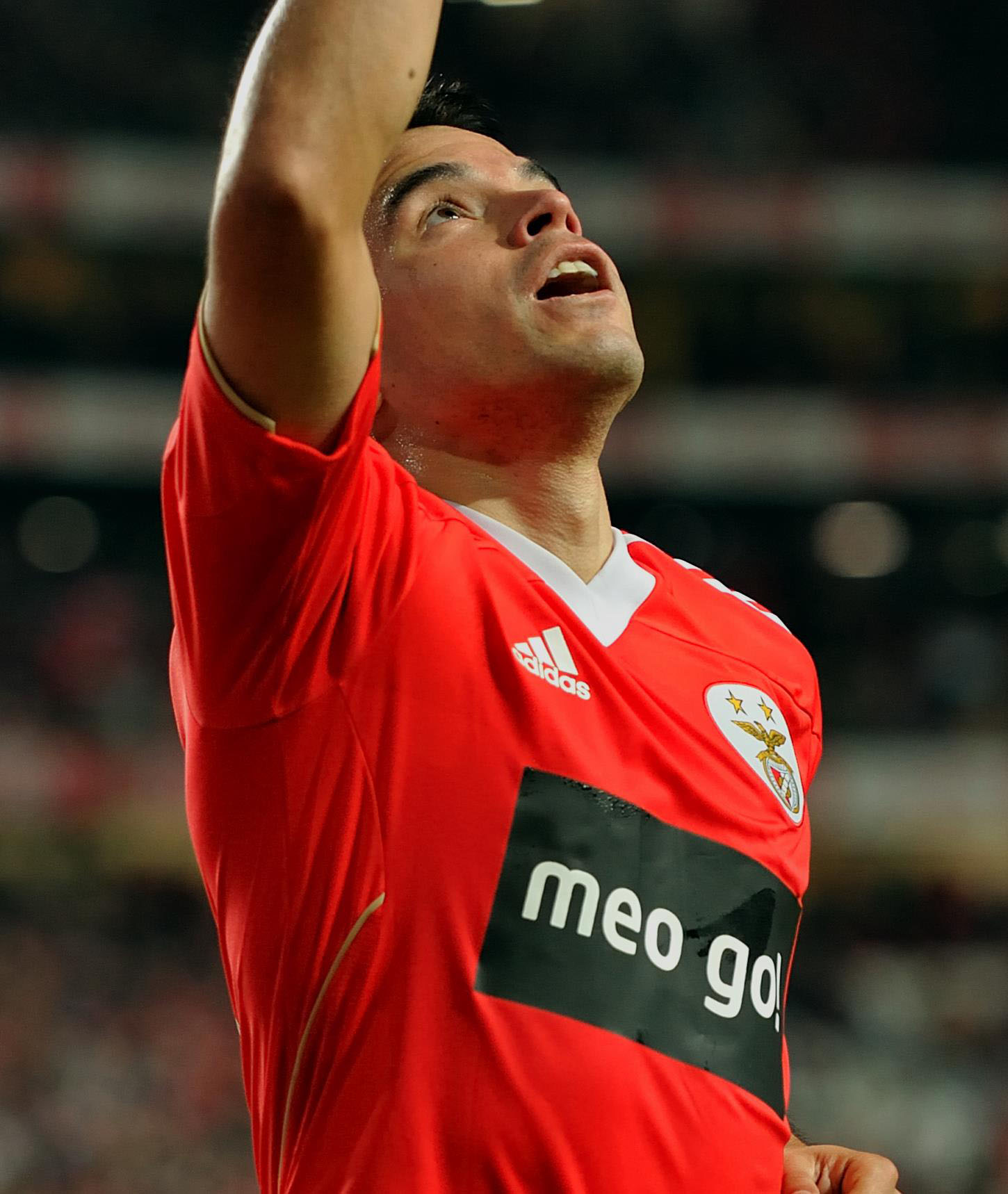 Saviola after scoring a goal against Rio Ave